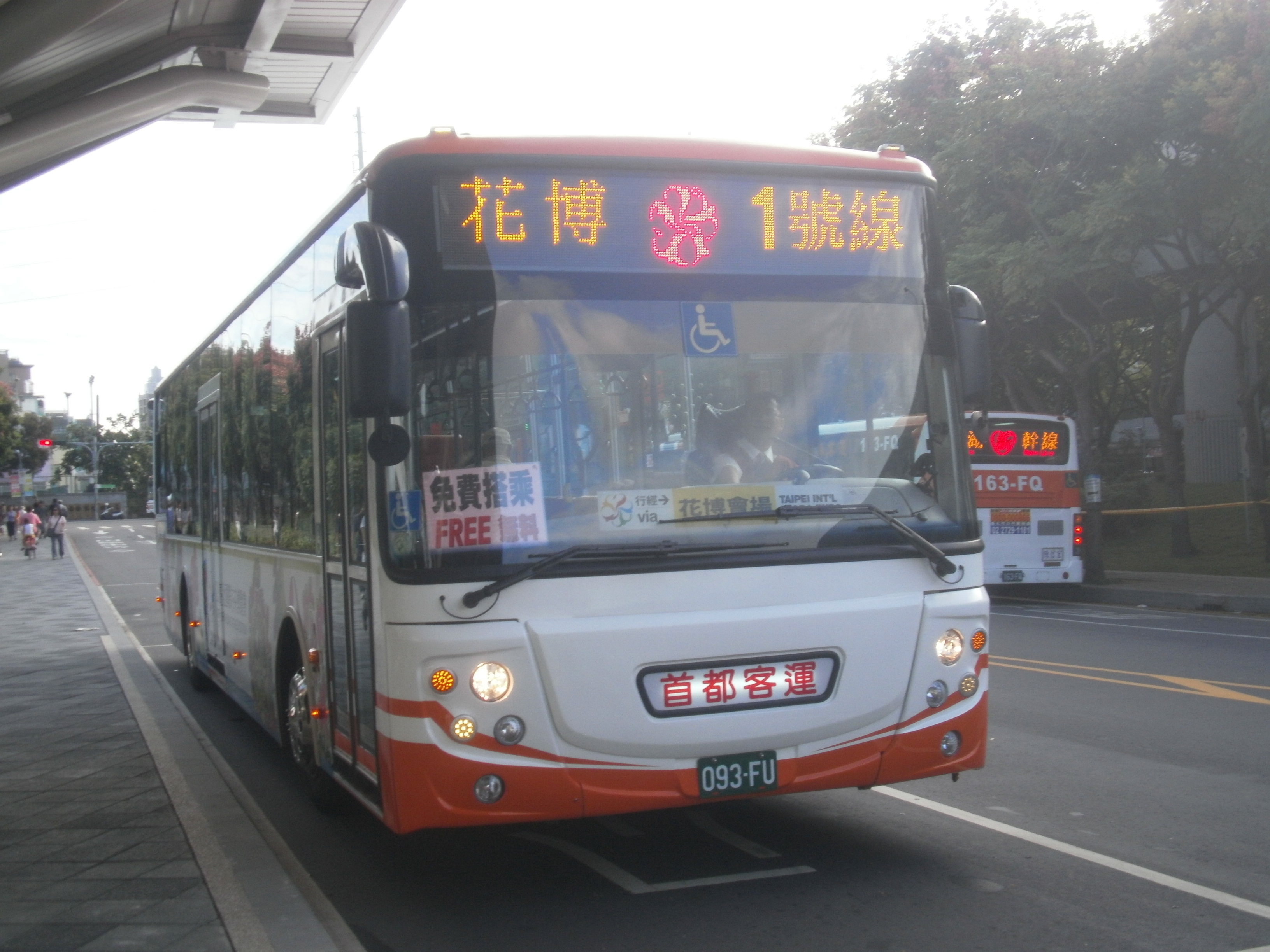 Expu Bus Line1